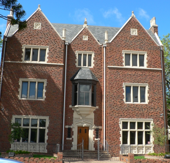 439 Inkerman Street. East St Kilda.